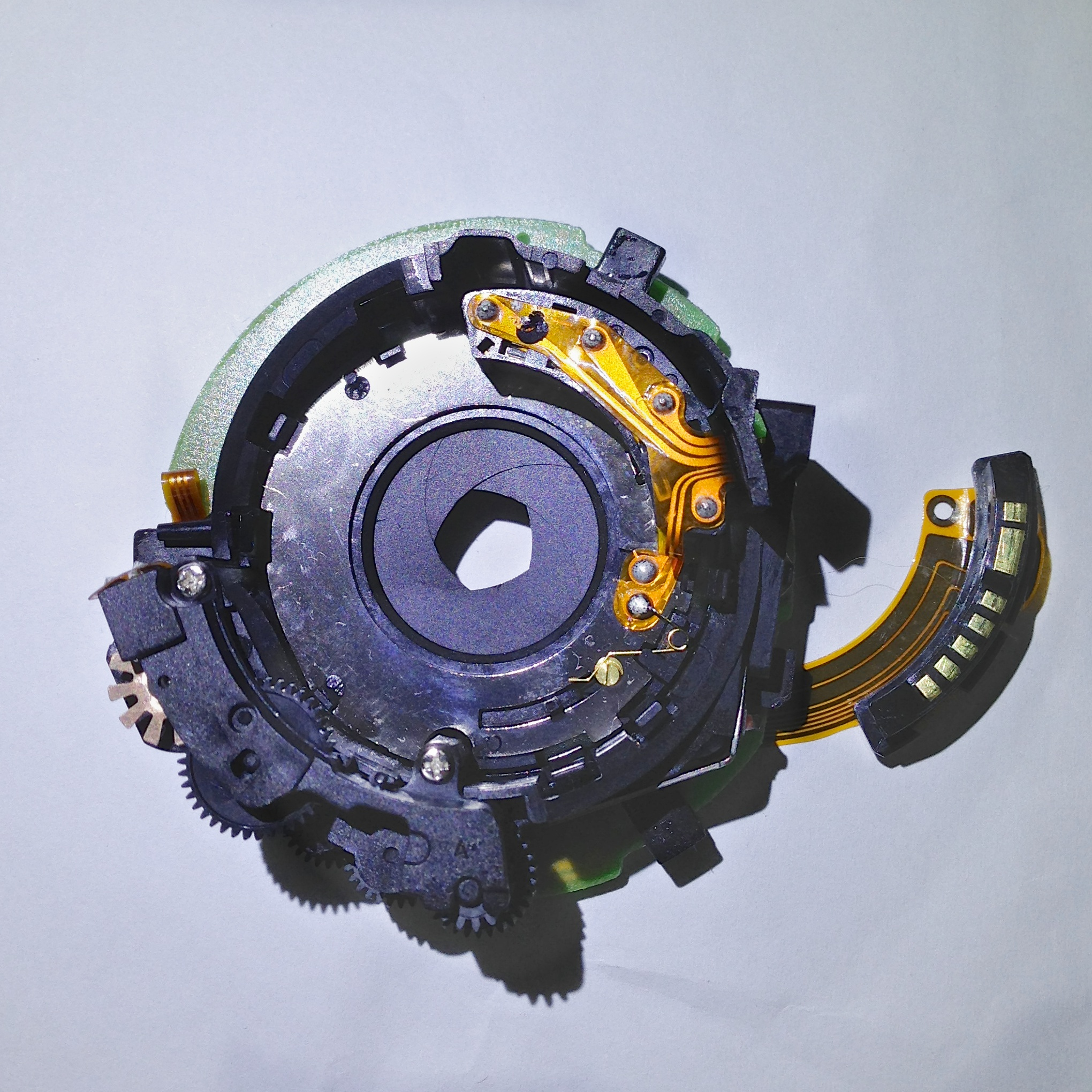 EF's EMD(Aperture)